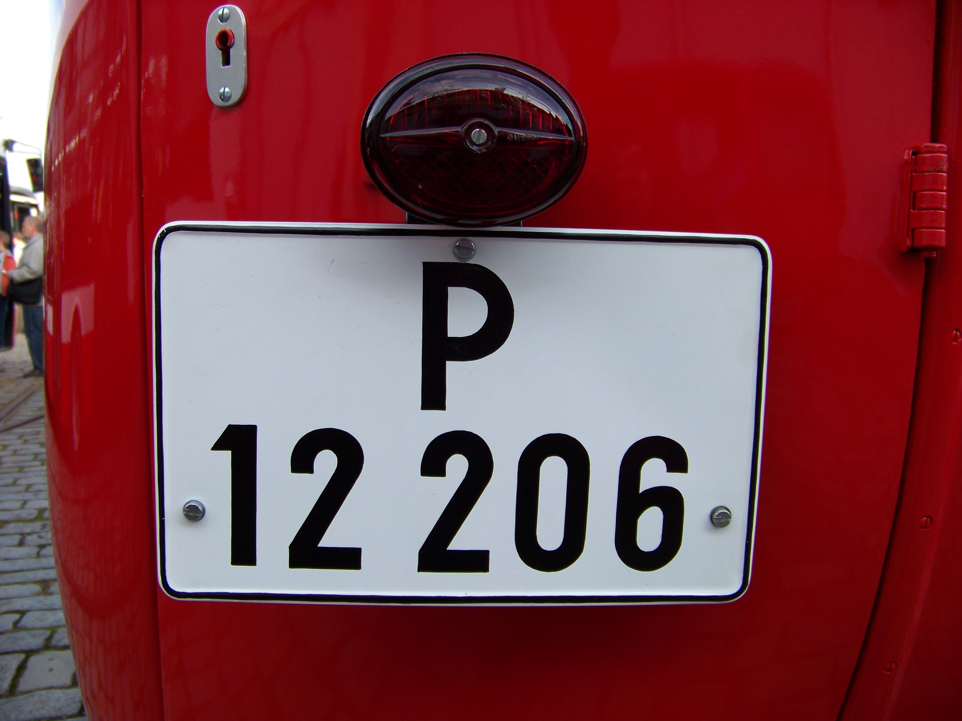 Prague-Střešovice, the Czech Republic. Open Doors Day of Urban Transport Museum. A bus Škoda 706 RO, a license plate. - Google Maps - Google Earth